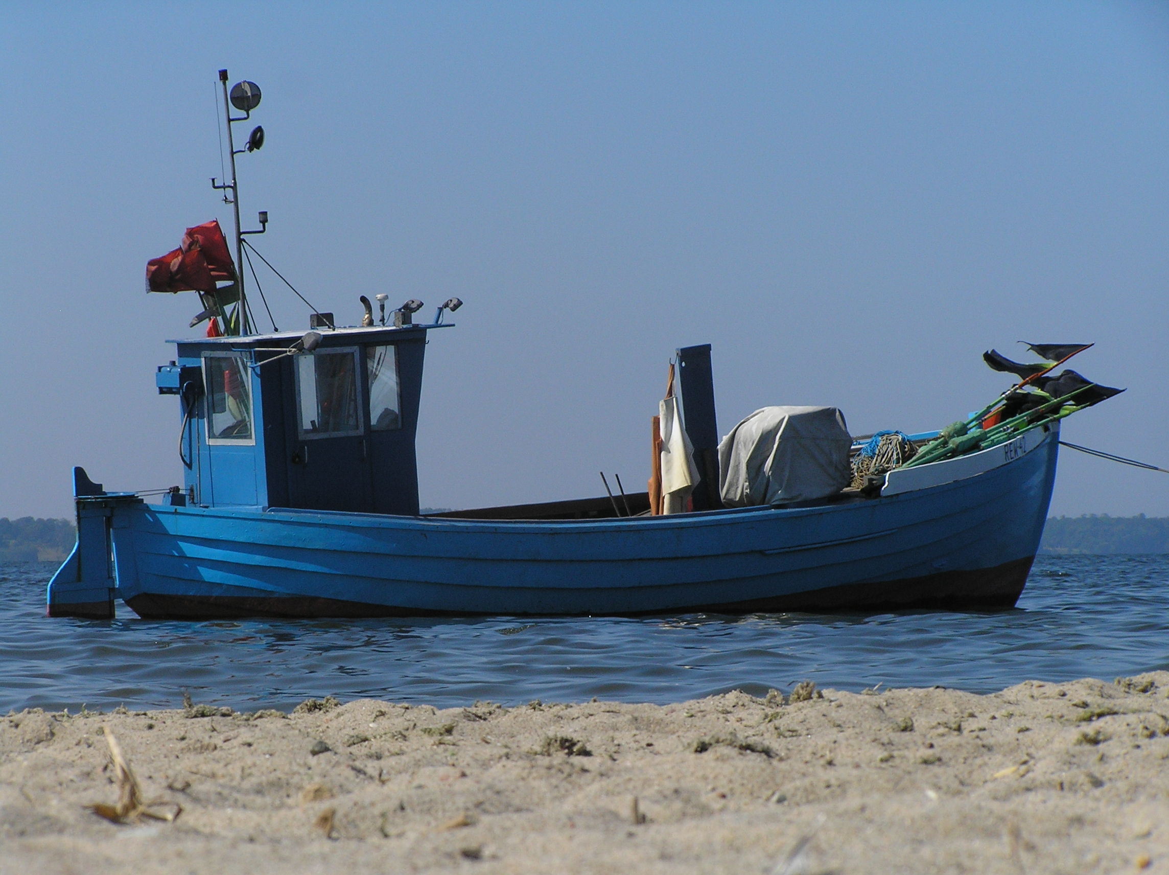 Fishing boat REW-42 in Rewa